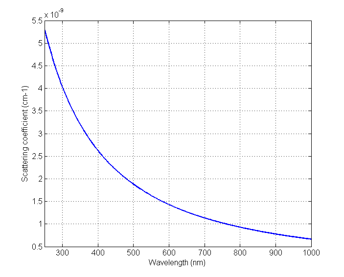 fig_5